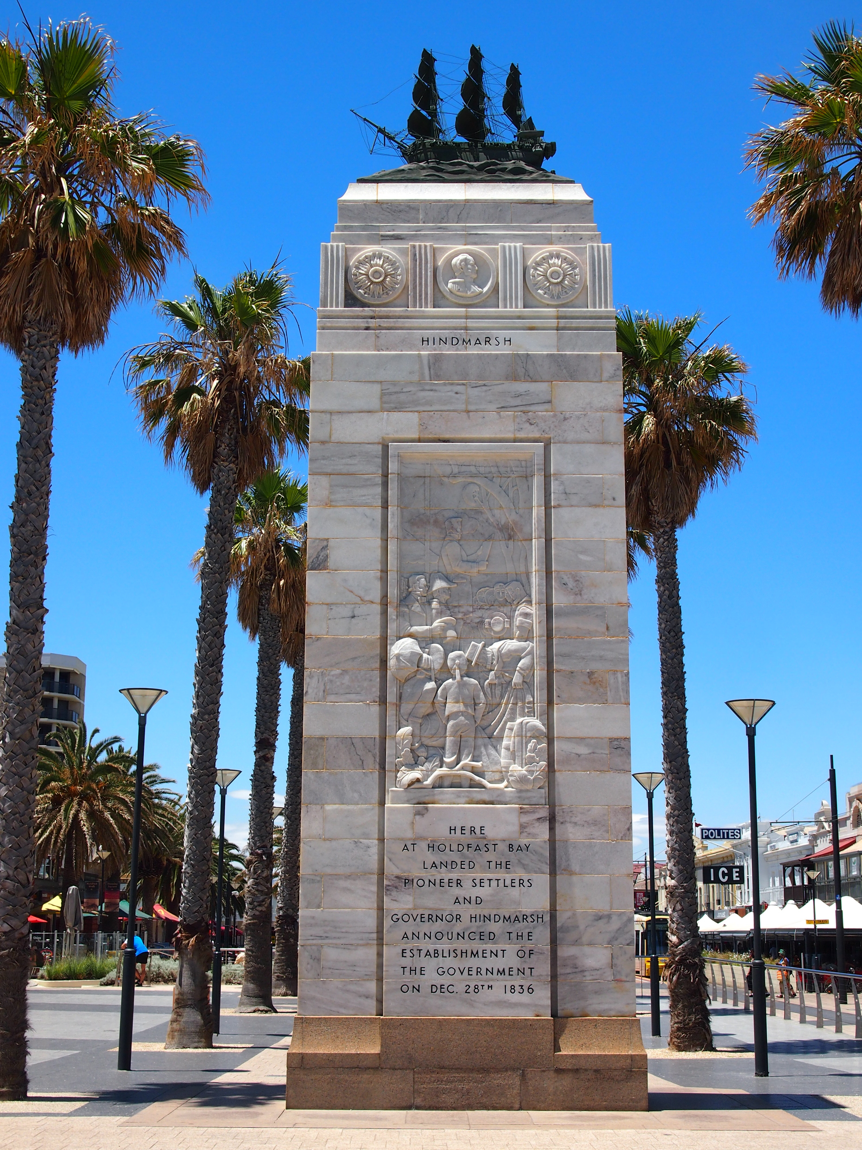 West face of the Centenary monument, Moseley Square, Glenelg, South Australia. Original filename = PB260685.JPG, rotated.